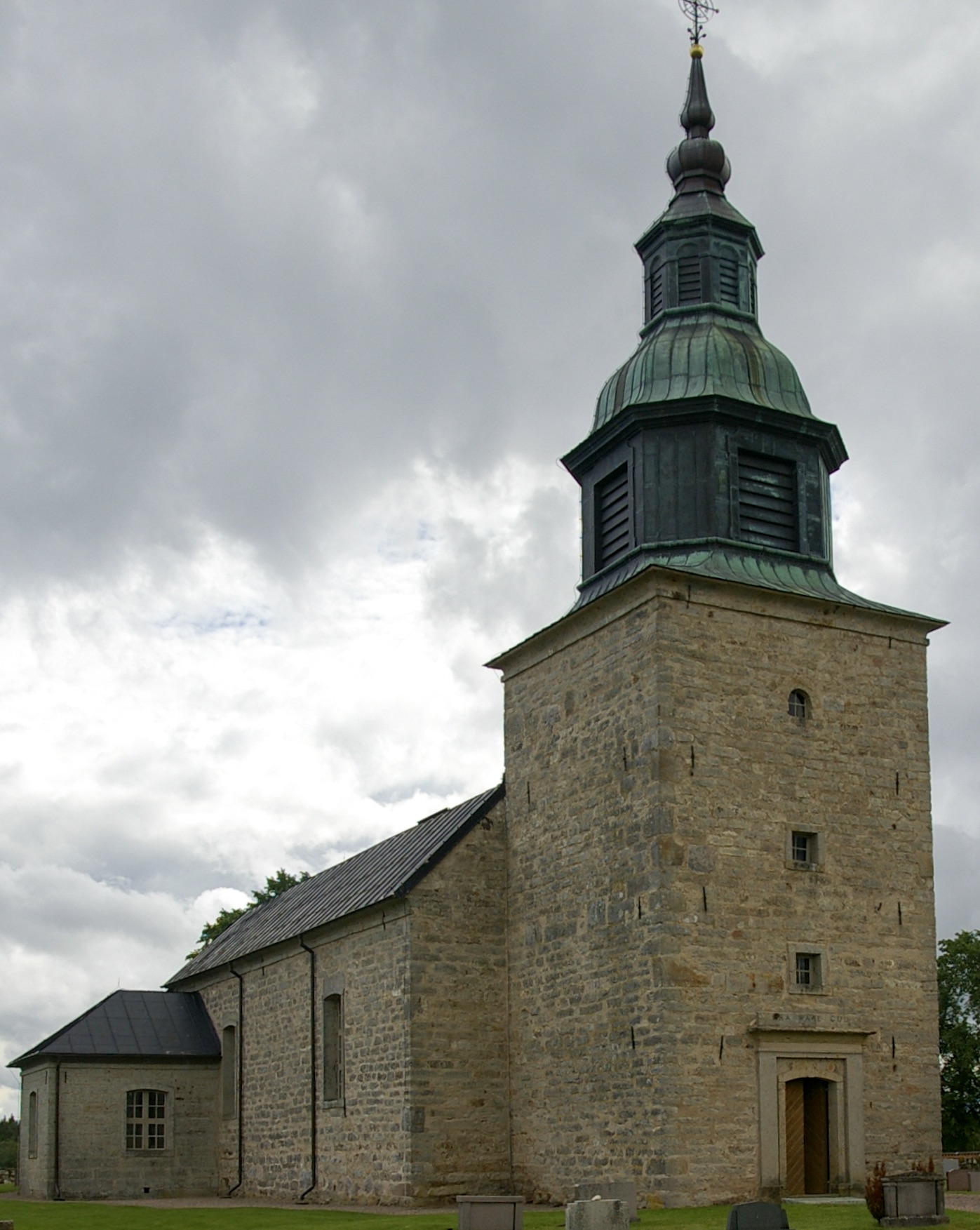 Bjurums kyrka (swedish: church of Bjurum), Västergötland, Sweden.